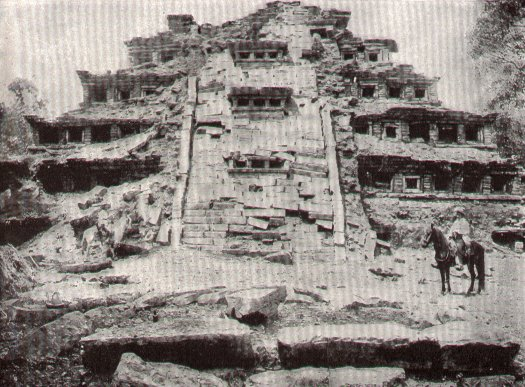 Pyramid of the Nitches, El Taji­n, from February 1913 National Geographic magazine.